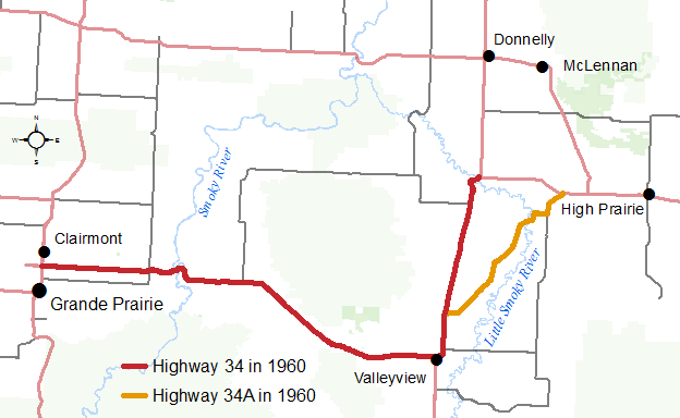 Alignment of former Highways 34 and 34A between 1960 and 1966 within Alberta in relation to nearby destination communities and the current provincial highway system within other base features including hydrography, provincial parks and the provincial green and white zones.